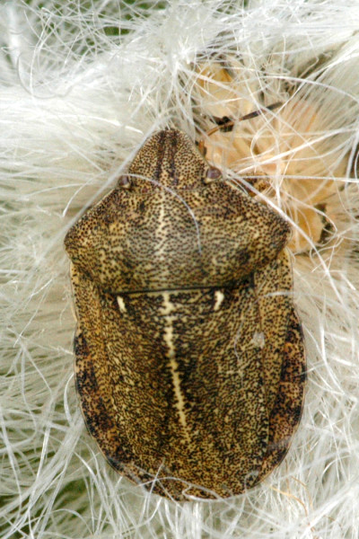 Picture taken in Commanster, Belgian High Ardennes . Species: Eurygaster testudinaria